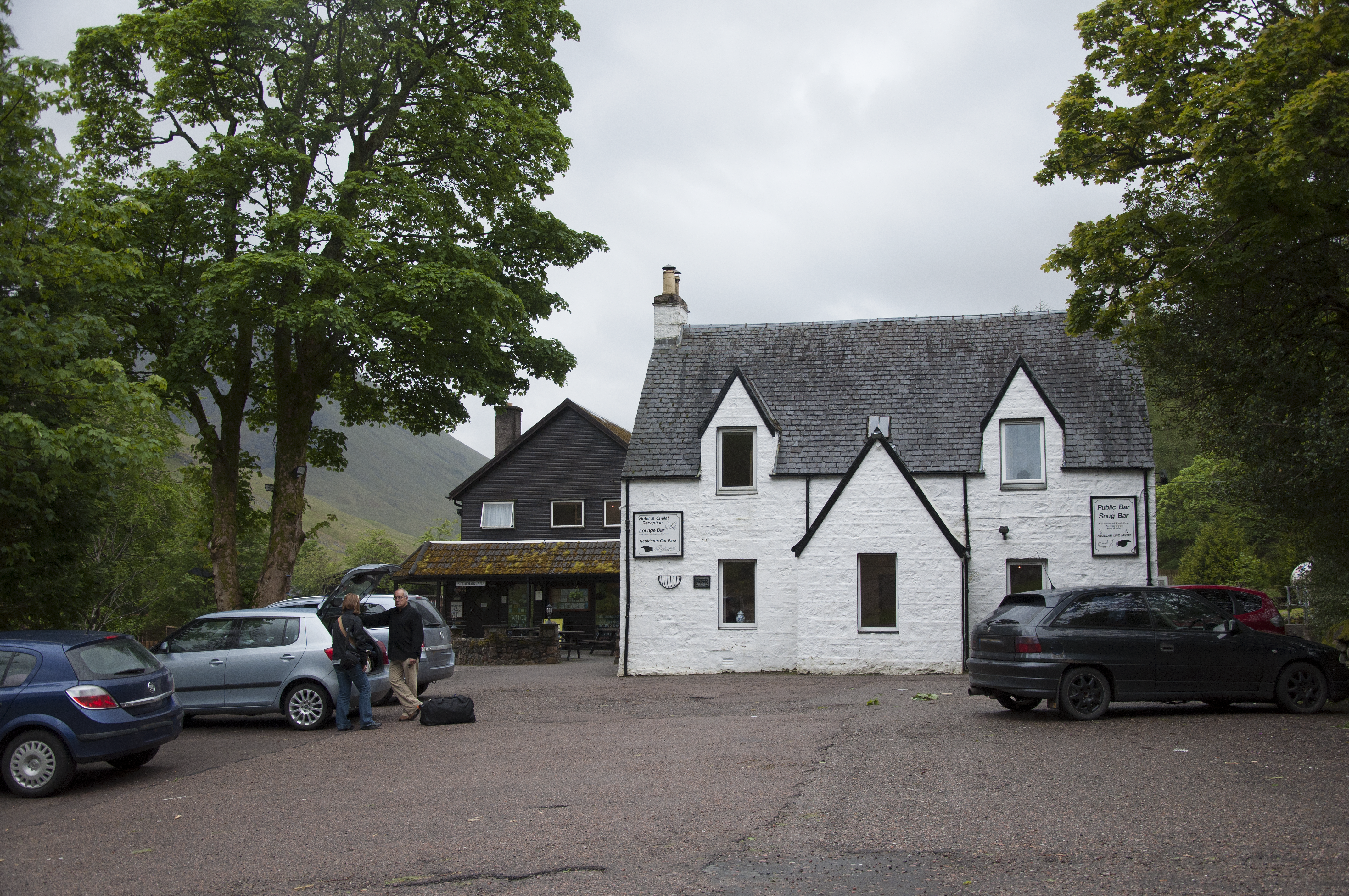 Clachaig Inn, Glen Coe, Scotland